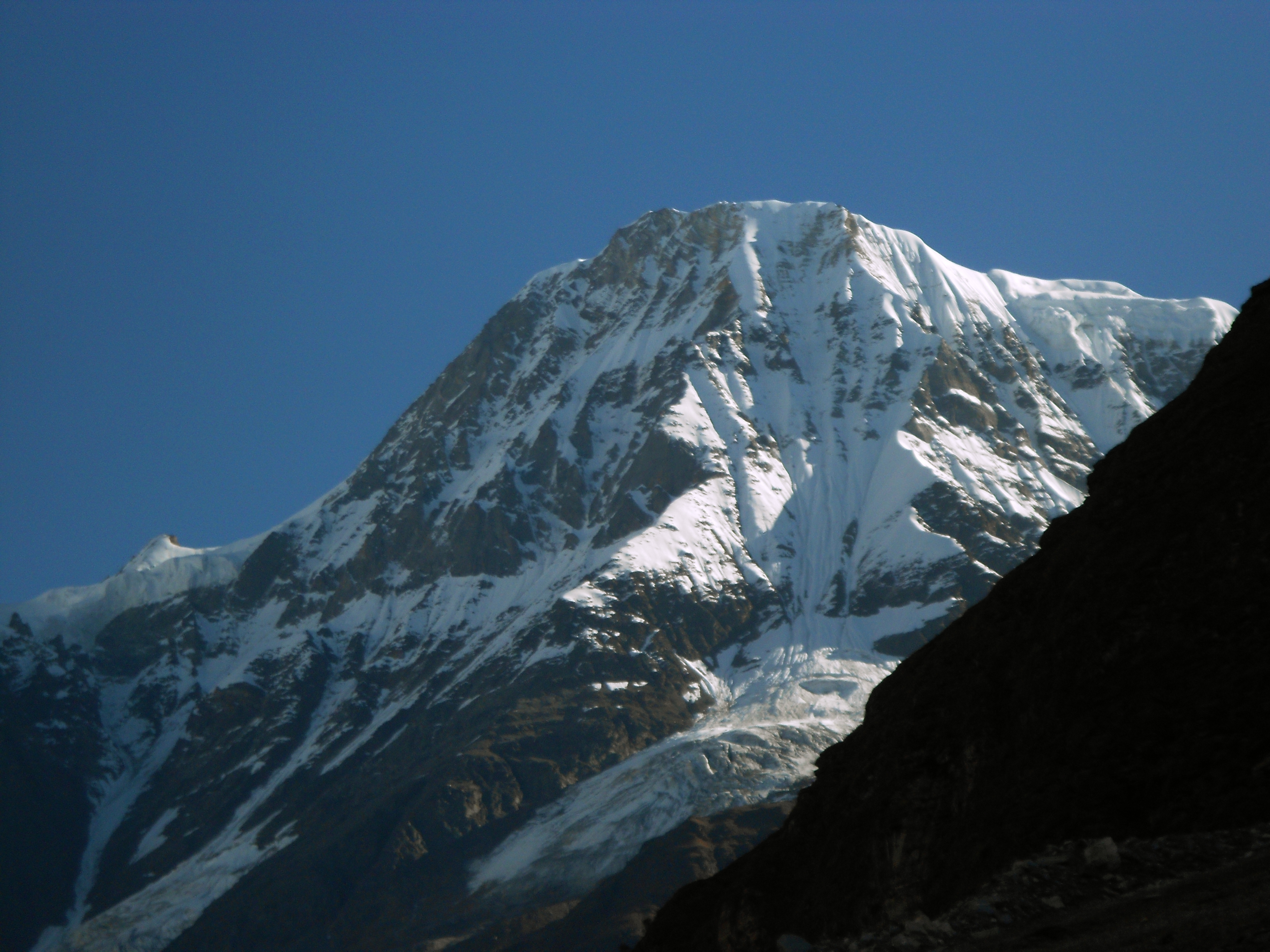 Changuch (6322 m), Uttarakhand, India.